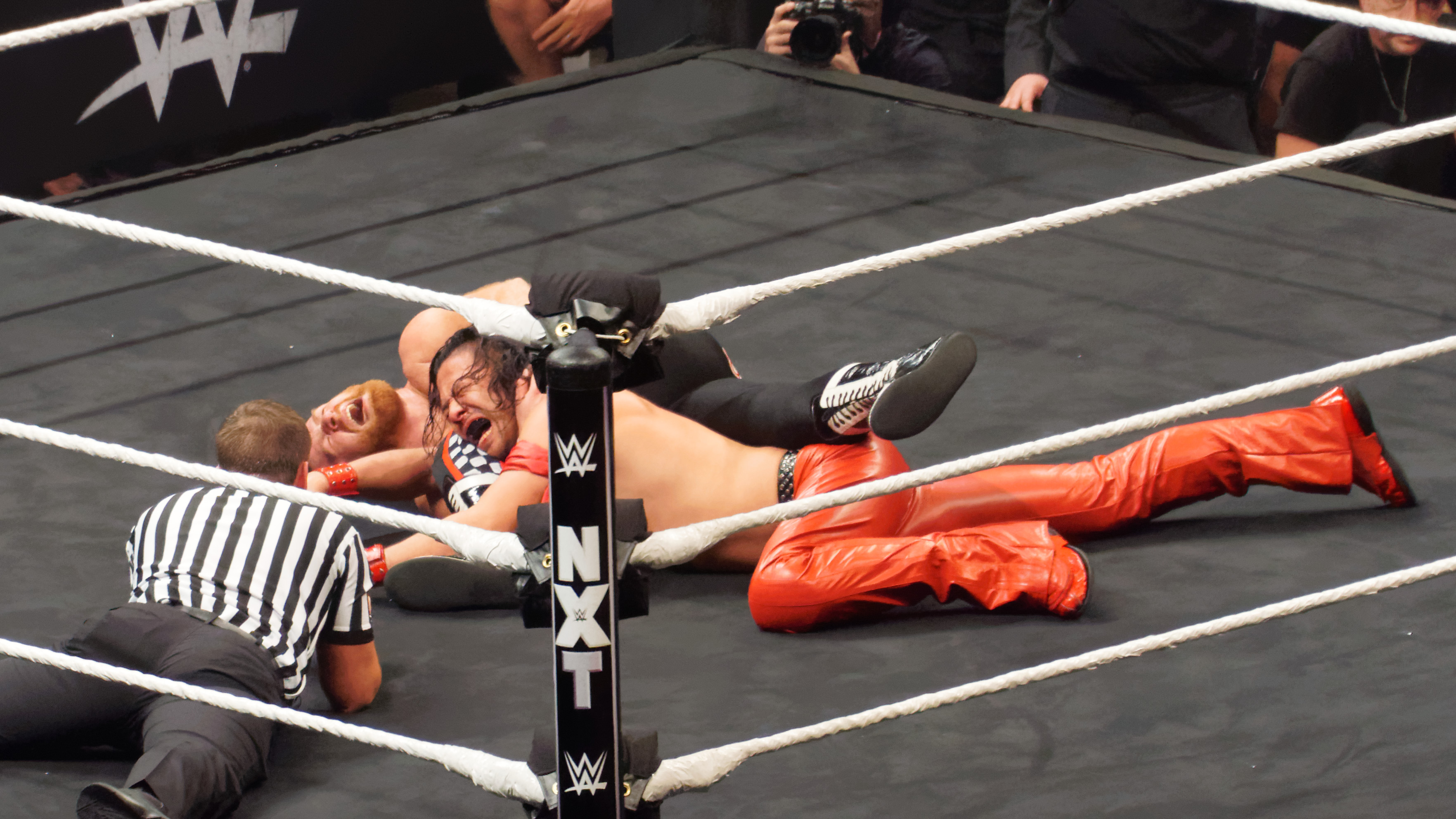 NXT TakeOver: Dallas was a major professional wrestling show in the NXT TakeOver series that took place on April 1, 2016, produced by WWE, showcasing its NXT developmental brand, and was streamed live on the WWE Network. It took place in the Kay Bailey Hutchison Convention Center in Dallas, Texas, during the weekend of WrestleMania 32. It was the first show in the NXT TakeOver series to be broadcast live on the WWE Network during WrestleMania weekend and first of 2016.[4] It was notable for Shinsuke Nakamura's WWE debut and first live match. The event received critical acclaim, with critics endorsing it as being better than WWE's WrestleMania 32 held two days later. The Zayn-Nakamura match was also lauded for being better than any match from WrestleMania 32. Shinsuke Nakamura def. (pin) Sami Zayn